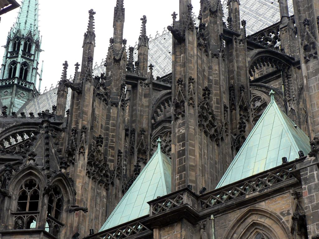 St Vitus Cathedral, close up on the flying buttresses